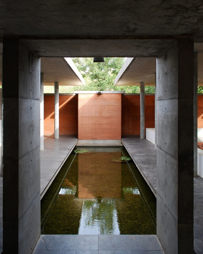 Vérité Integral Learning Centre at Auroville